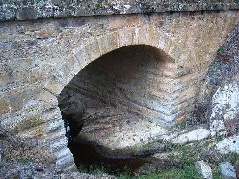 Convict-built bridge dated 1839, for the Great South Road, at Towrang, Australia. Possibly designed by David Lennox.